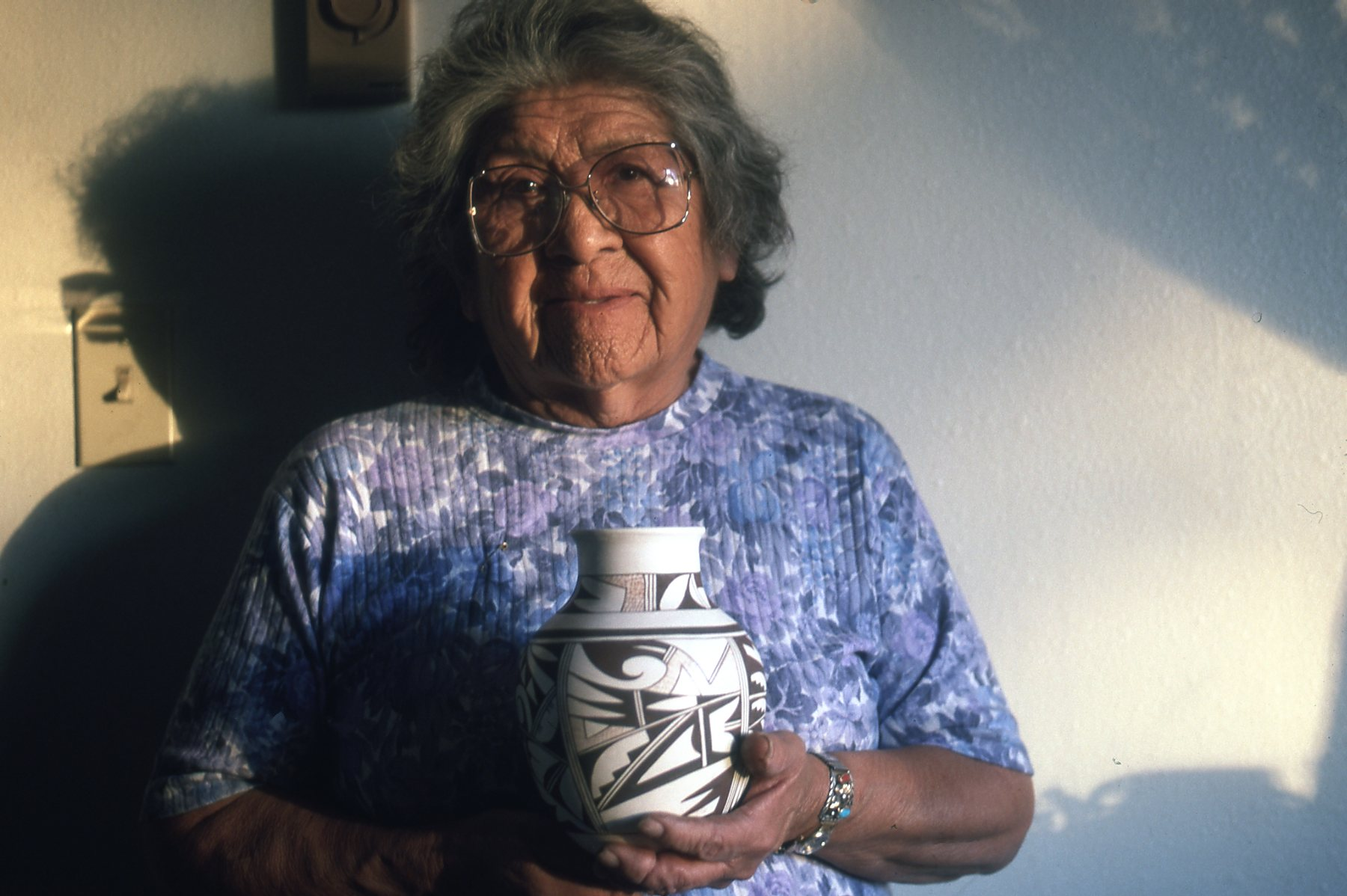 This is a picture of Joy Nabasie ("Frog woman") a famous Pueblo potter